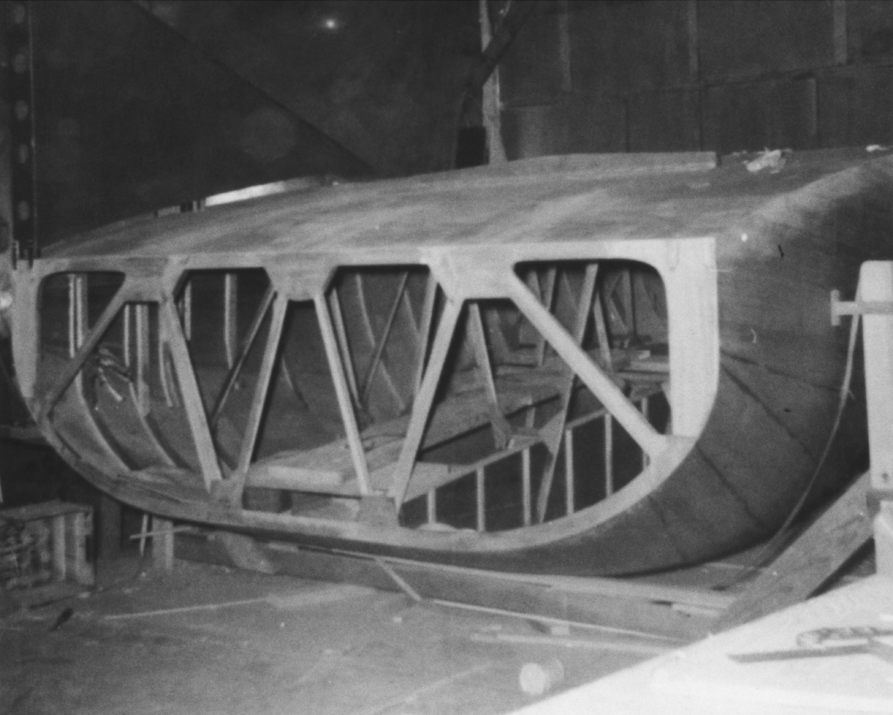 Wooden shell of the M2-F1 being assembled at El Mirage, CA. While Flight Research Center technicians built the internal steel structure of the M2-F1, sailplane builder Gus Briegleb built the vehicle's outer wooden shell. Its skin was 3/32-inch mahogany plywood, with 1/8-inch mahogany rib sections reinforced with spruce.